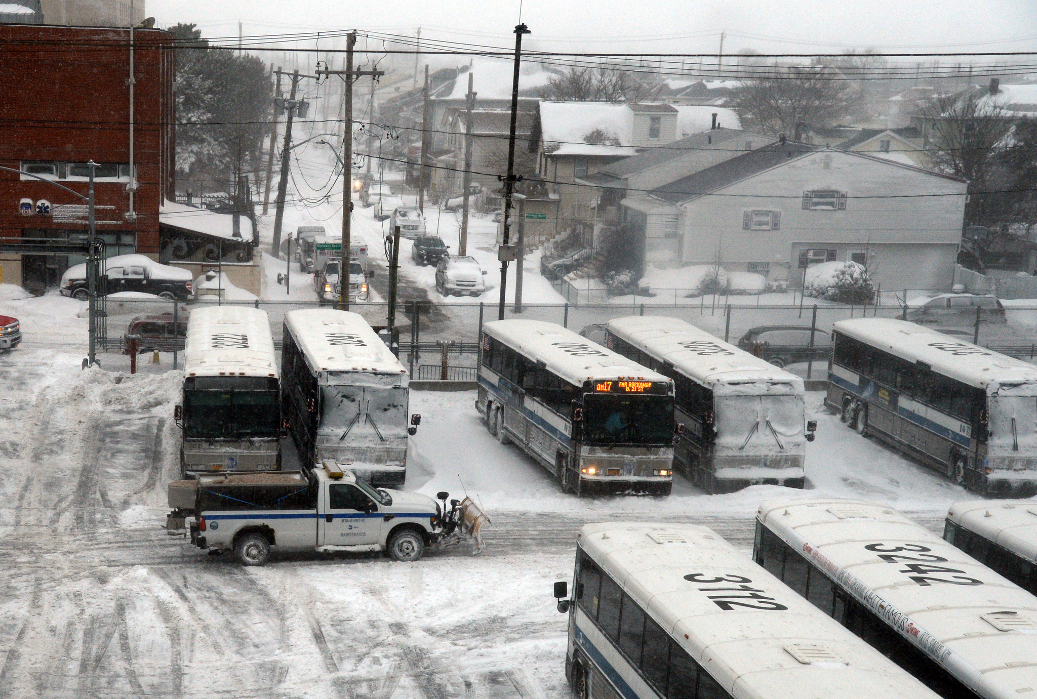 MTA crews were deployed from Wednesday, January 3, through Friday, January 5, to clear facilities of snow and ice as the winter storm swept through the region. Bus personnel cleared snow and salted platforms, as well as station entrances, sidewalk vents, emergency exits and other operational and employee facilities. This photo shows an MTA Bus plow clearing the Far Rockaway Bus Depot. Credit: MTA New York City Transit / Marc A. Hermann